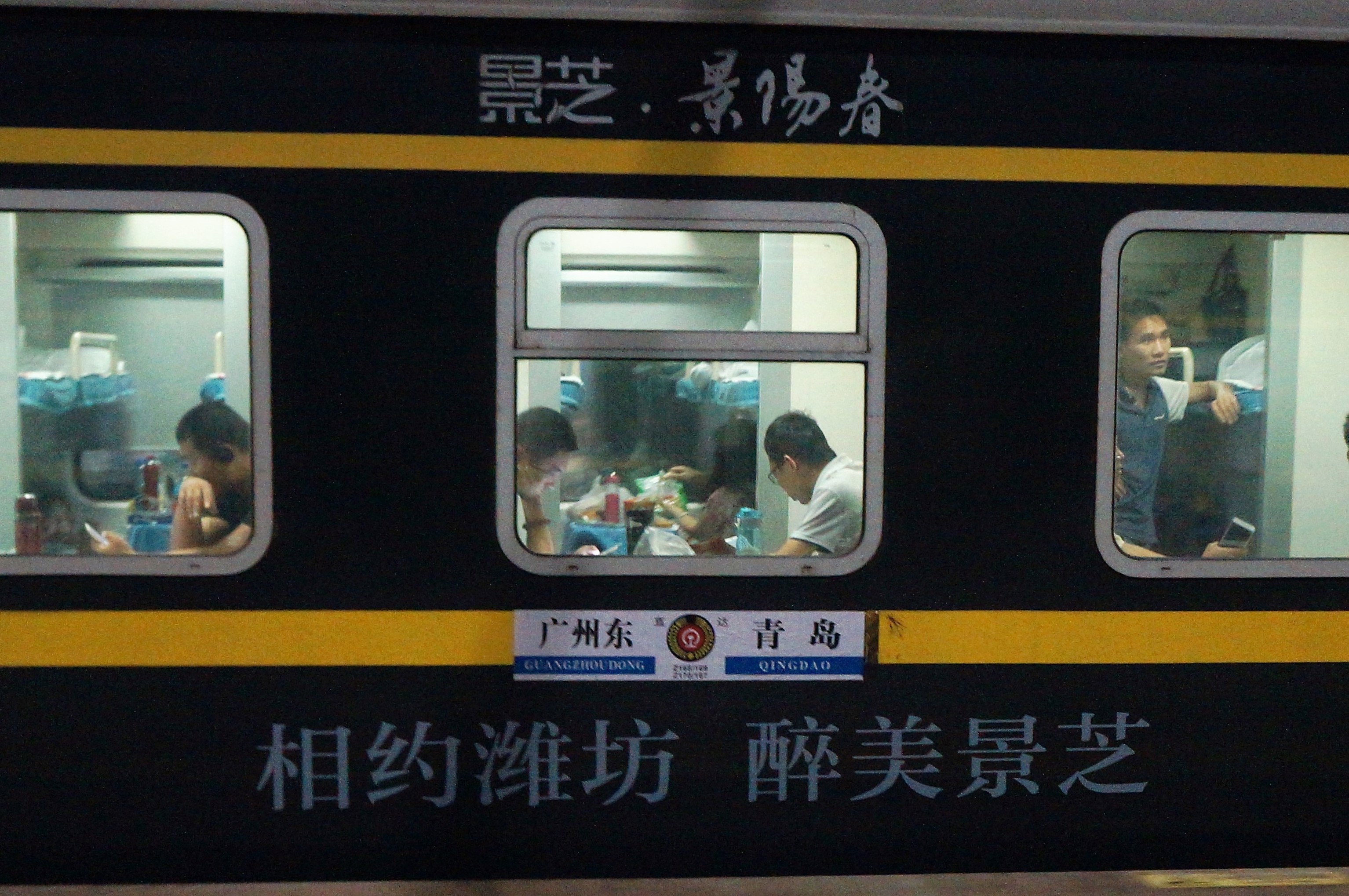 Z167 168 169 170 infoboard in 201806, taken at Xuzhou Station